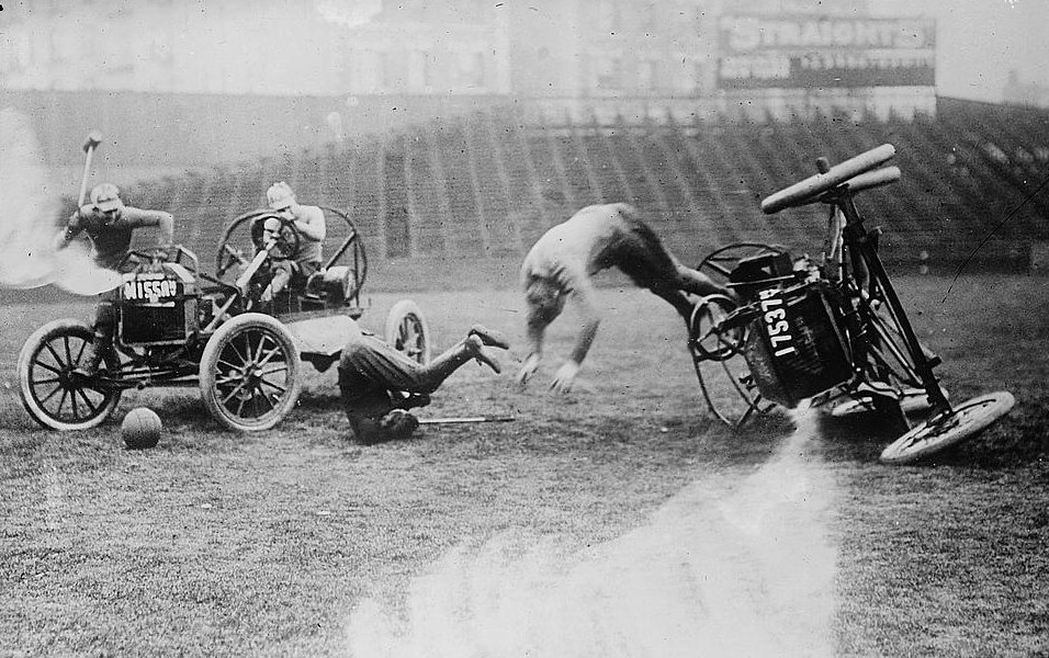 Bain News Service,, publisher. Auto polo [between ca. 1910 and ca. 1915] 1 negative : glass ; 5 x 7 in. or smaller. Notes: Title from unverified data provided by the Bain News Service on the negatives or caption cards. Forms part of: George Grantham Bain Collection (Library of Congress). Format: Glass negatives. Repository: Library of Congress, Prints and Photographs Division, Washington, D.C. 20540 USA, [1] General information about the Bain Collection is available at [2] Persistent URL: [3] Call Number: LC-B2- 2473-10